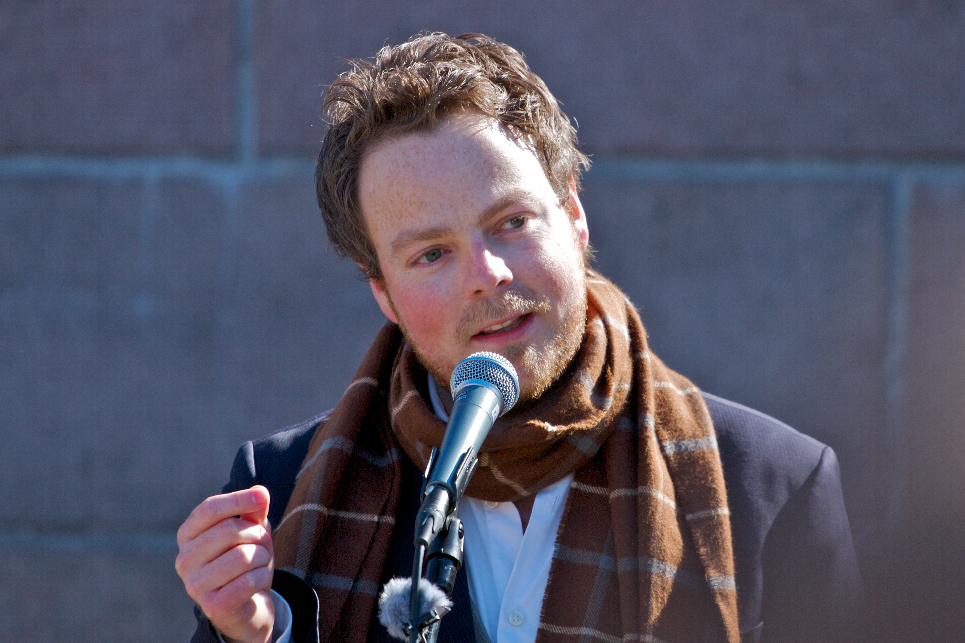 Torbjørn Røe Isaksen during the demonstration against the Data Retention Directive. Oslo, April 10, 2010